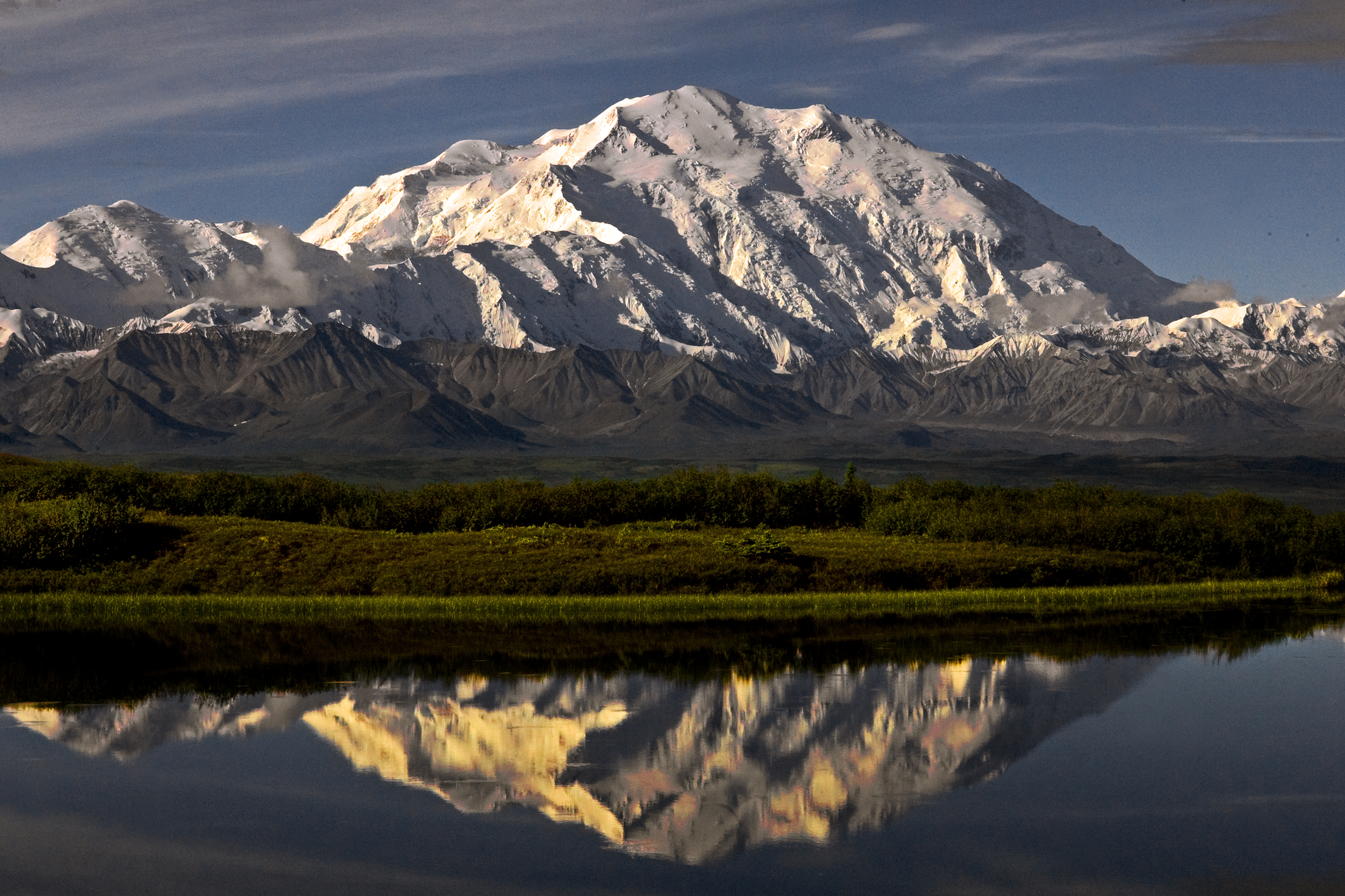 (NPS Photo/Ken Conger)